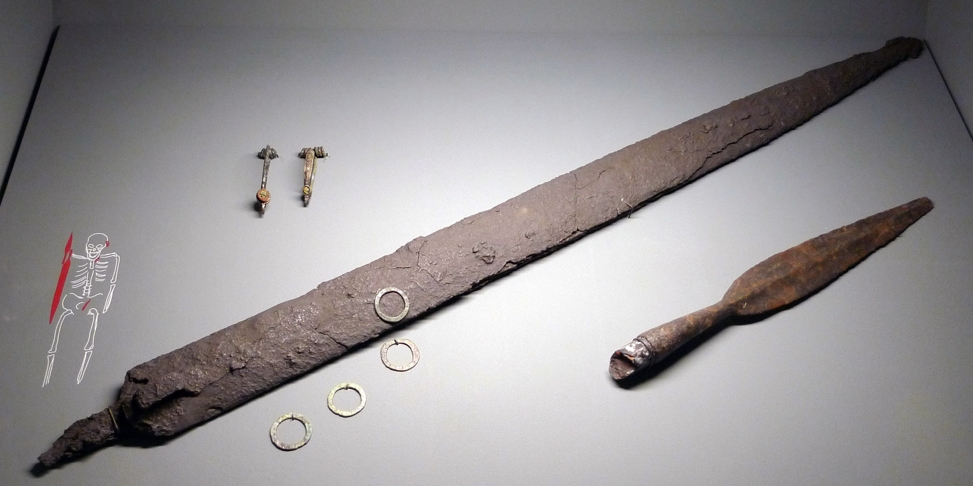 Weapons and fibulae from a warrior's grave, c. 350 BC. Grave no. 91, Celtic burial site, "Rain", Münsingen, Switzerland.